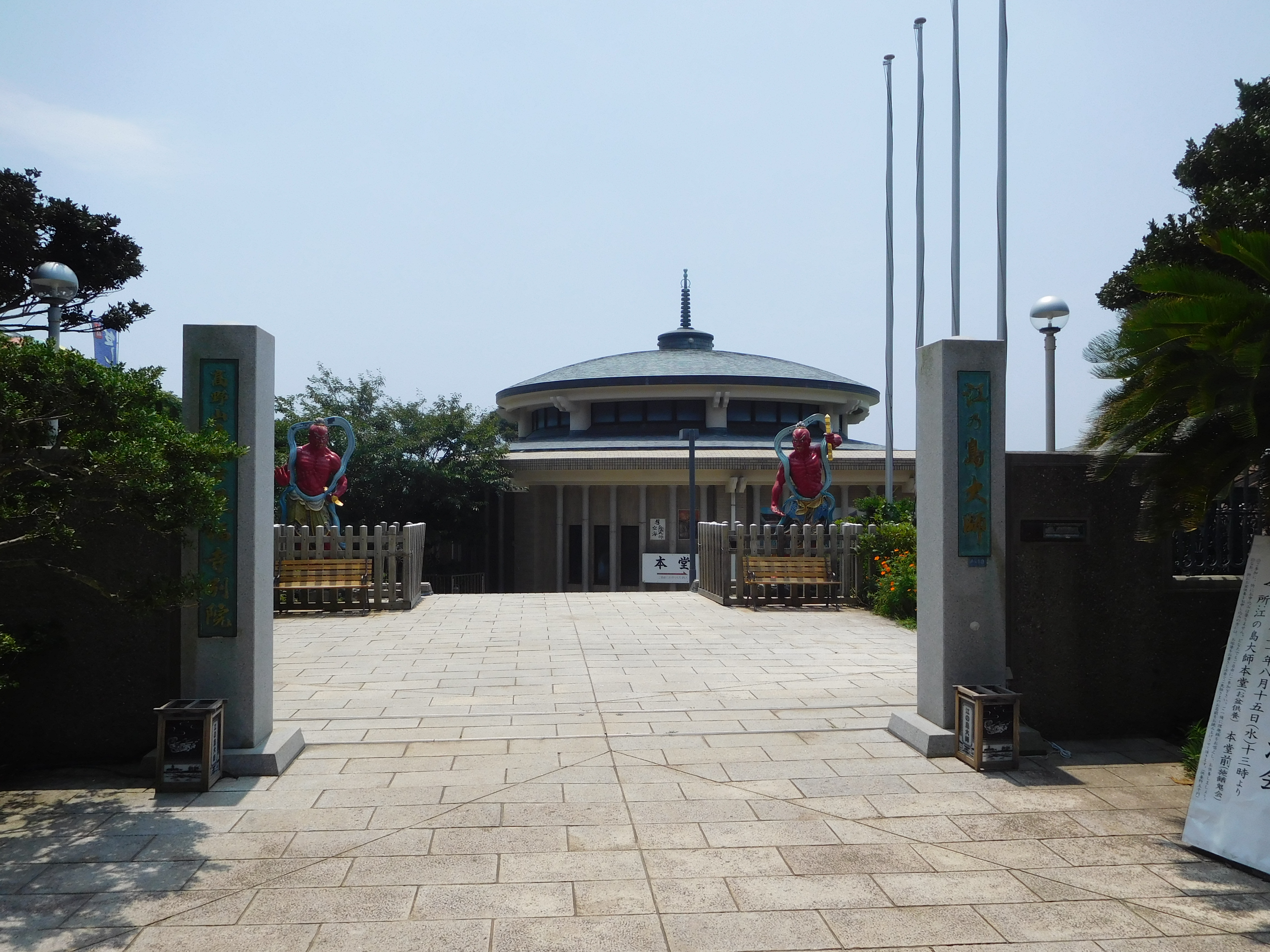 This is Enoshima Daishi, a buddhist temple in Fujisawa, Kanagawa, Japan.